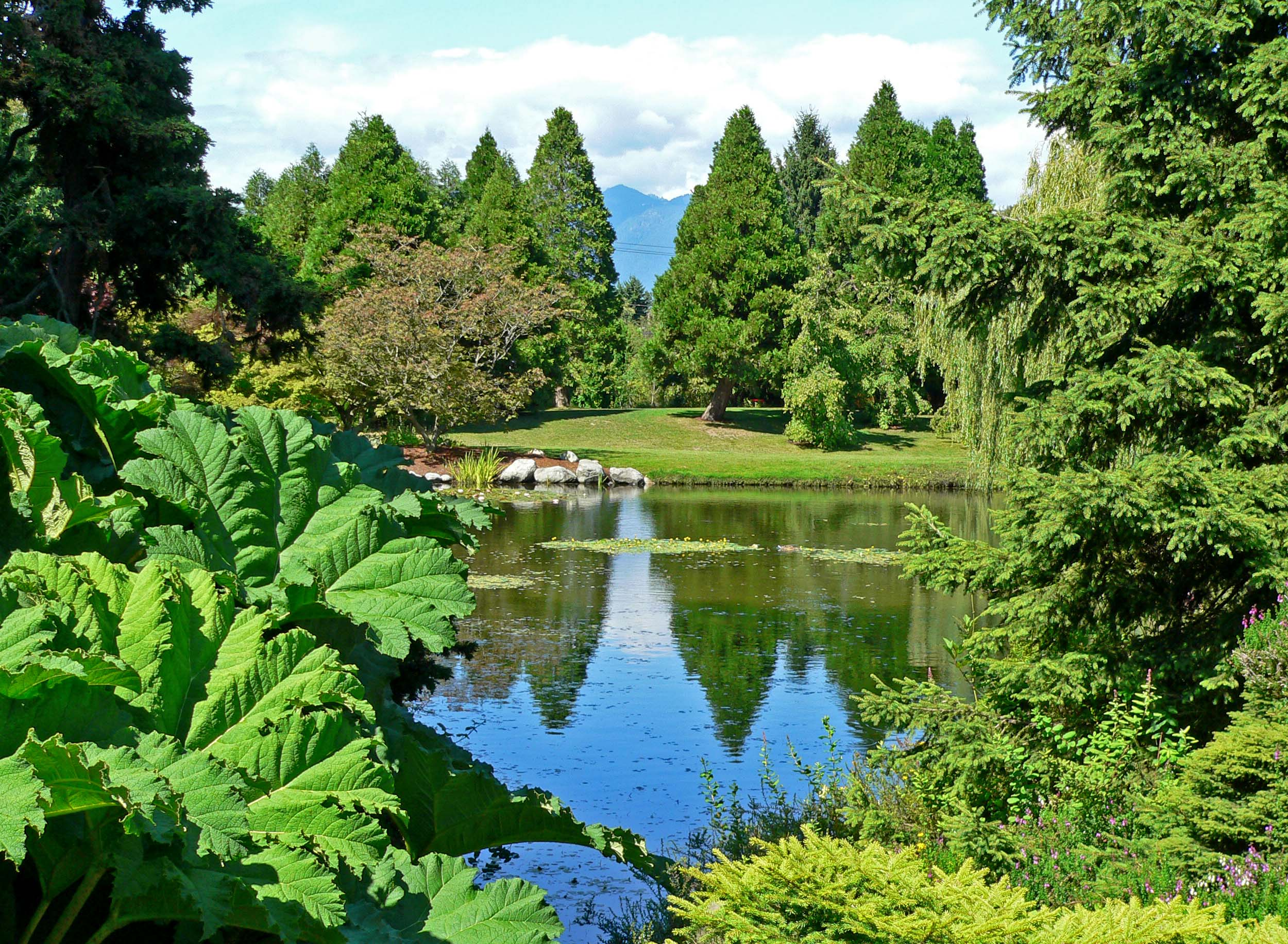 Photo of VanDusen Botanical Garden in Vancouver